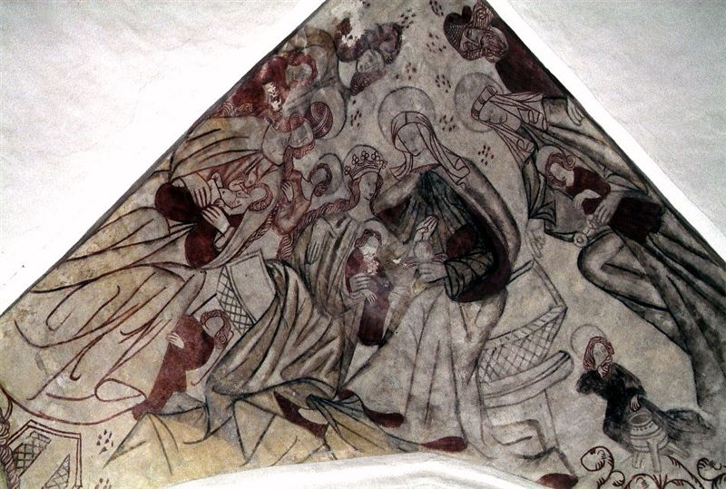 Frescos in Sanderum Kirke.